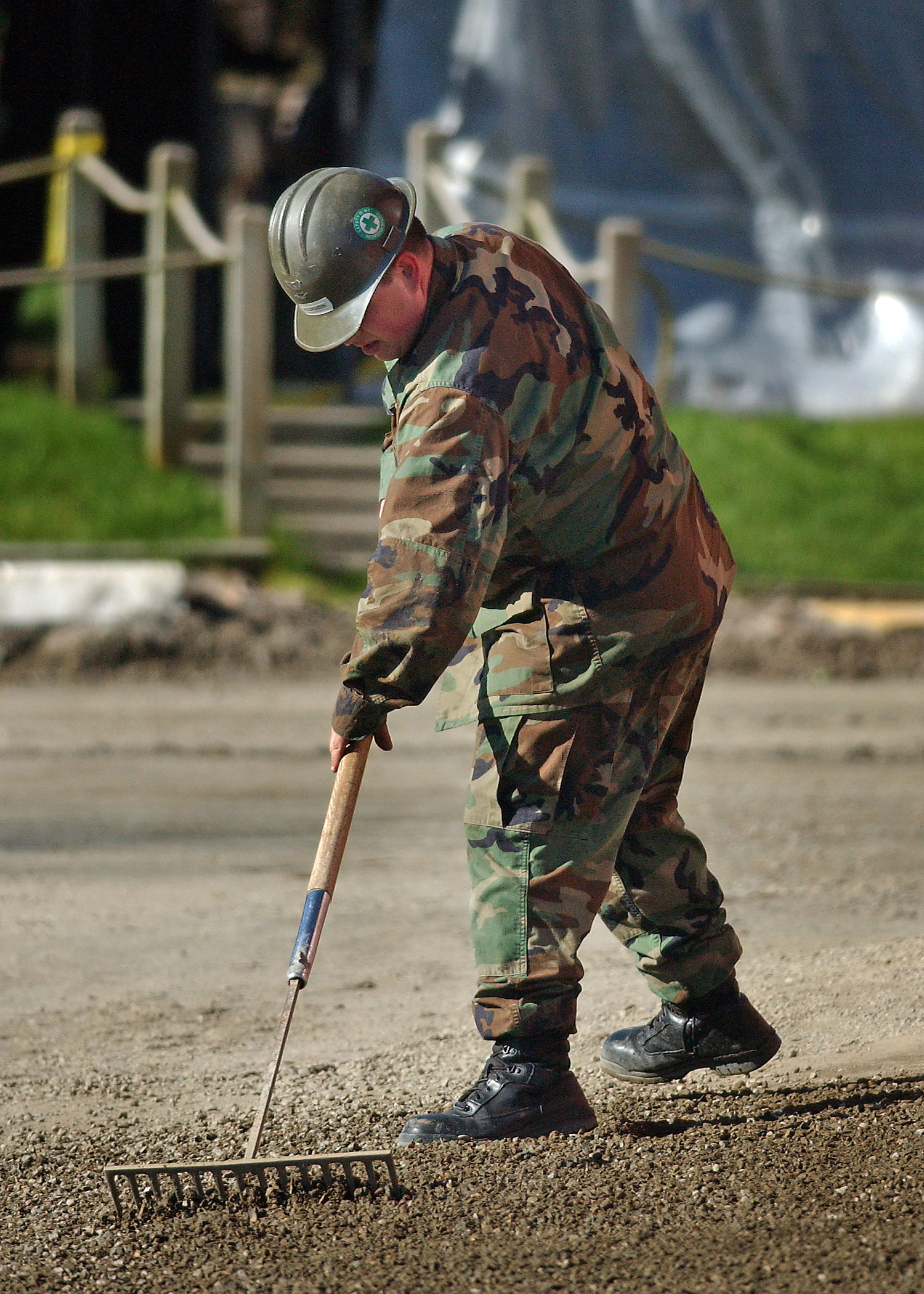 Whidbey Island, Wash. (Mar. 22, 2005) - Equipment Operator 3rd Class Steven Veldhuizen, assigned to Construction Battalion Unit 417, prepares landscape for asphalt on board Naval Air Station Whidbey Island, Wash. U.S. Navy photo by Photographer's Mate 2nd Class Michael D. Winter (RELEASED)